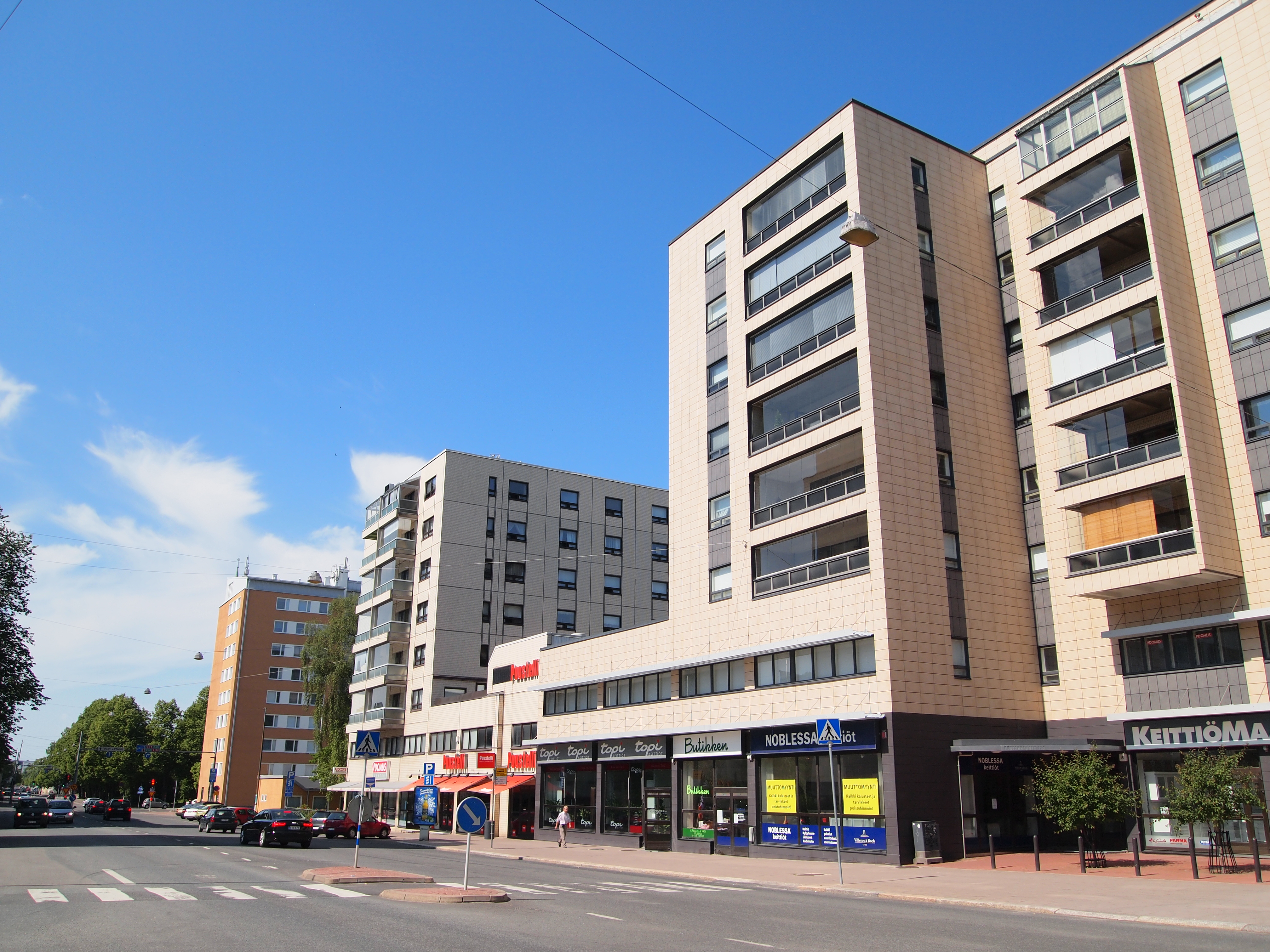 View on the street Puutarhakatu, Turku. This photograph was taken with an Olympus E-PL1